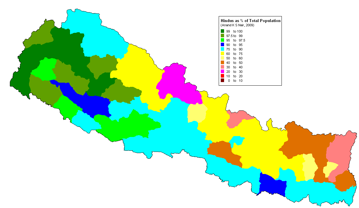 Self created using Indian Census data which is available at the Census site.